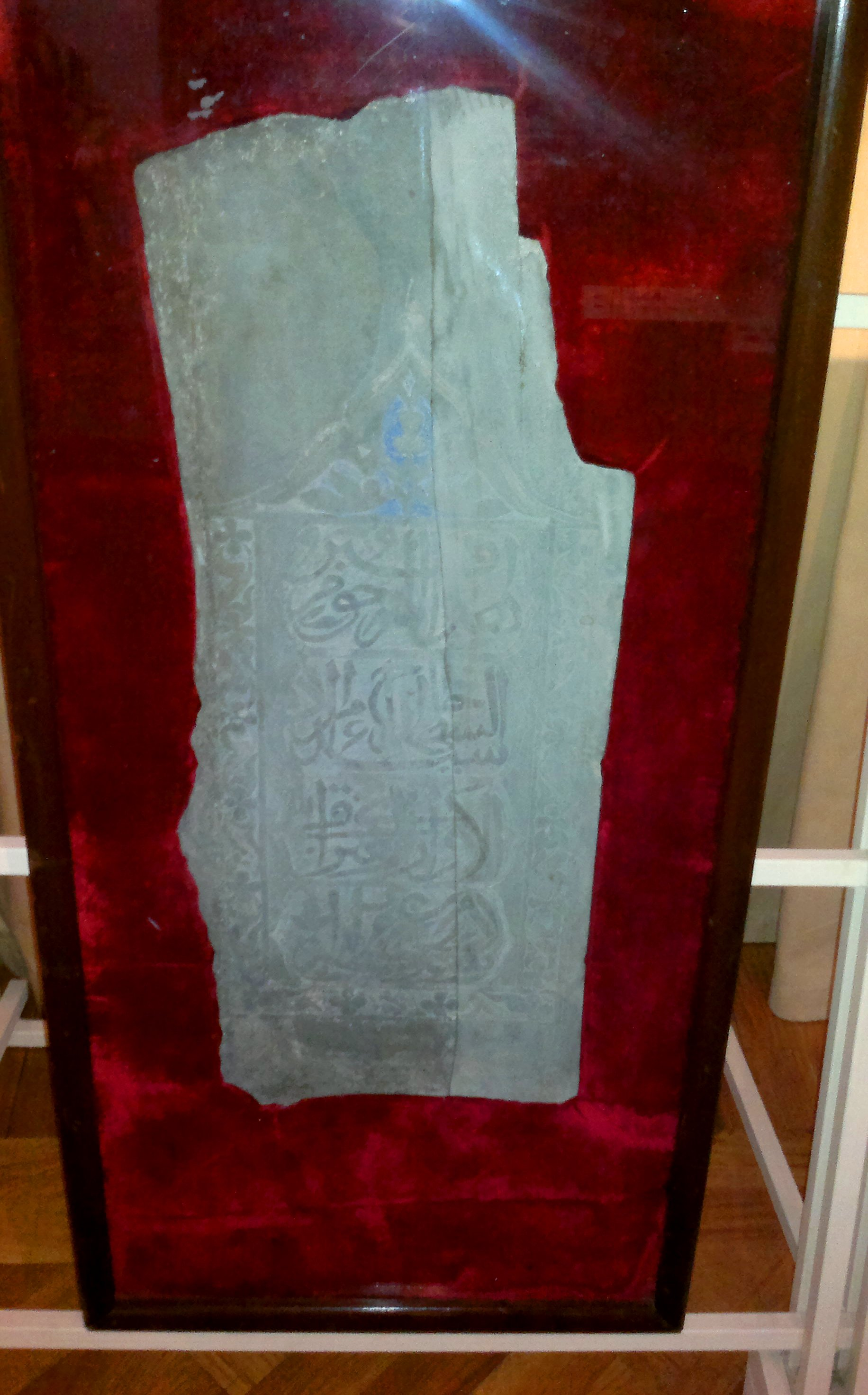 Gravestone which is brought from Dashkend forest of Qakh region. Made from local river stone and decorated with calligraphic Arabic insription in sulus script put in the framed arch. Translation of inscription: This tomb of the late head of the martyrs Avar Gazaqi Hadji Murad 1268 [1852]. Museum of History of Azerbaijan, Baku.